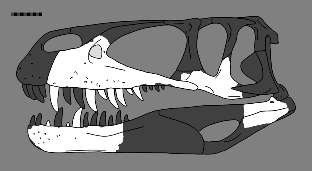 Reconstructed skull of Megalosaurus bucklandii based on holotype and referred remains, and related Torvosaurus tanneri. Scale bar is 10cm, image is 10px/cm. Cranial anatomy based on Benson (2010) "A description of Megalosaurus bucklandii (Dinosauria: Theropoda) from the Bathonian of the UK and the relationships of Middle Jurassic theropods"